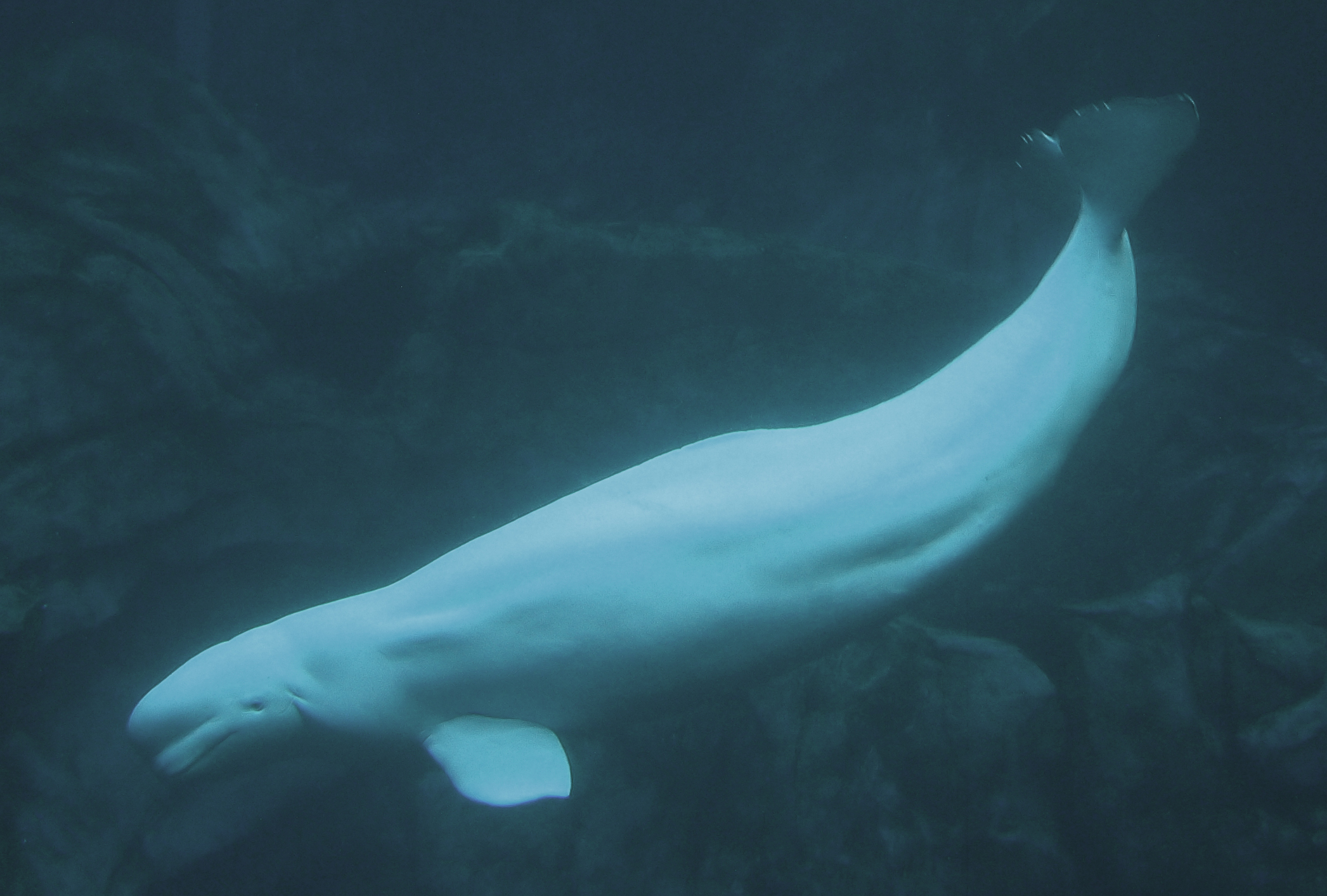 Beluga whale at the Atlanta aquarium. Photo by Greg Hume